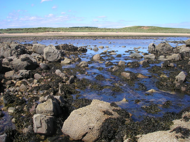 Lagoon and East Links The view from the seaward side of the lagoon which forms at low tide. Although the lagoon drains into the sea when the tide has receded it is possible to walk right round the lagoon since the many channels through which the water escapes are narrow.